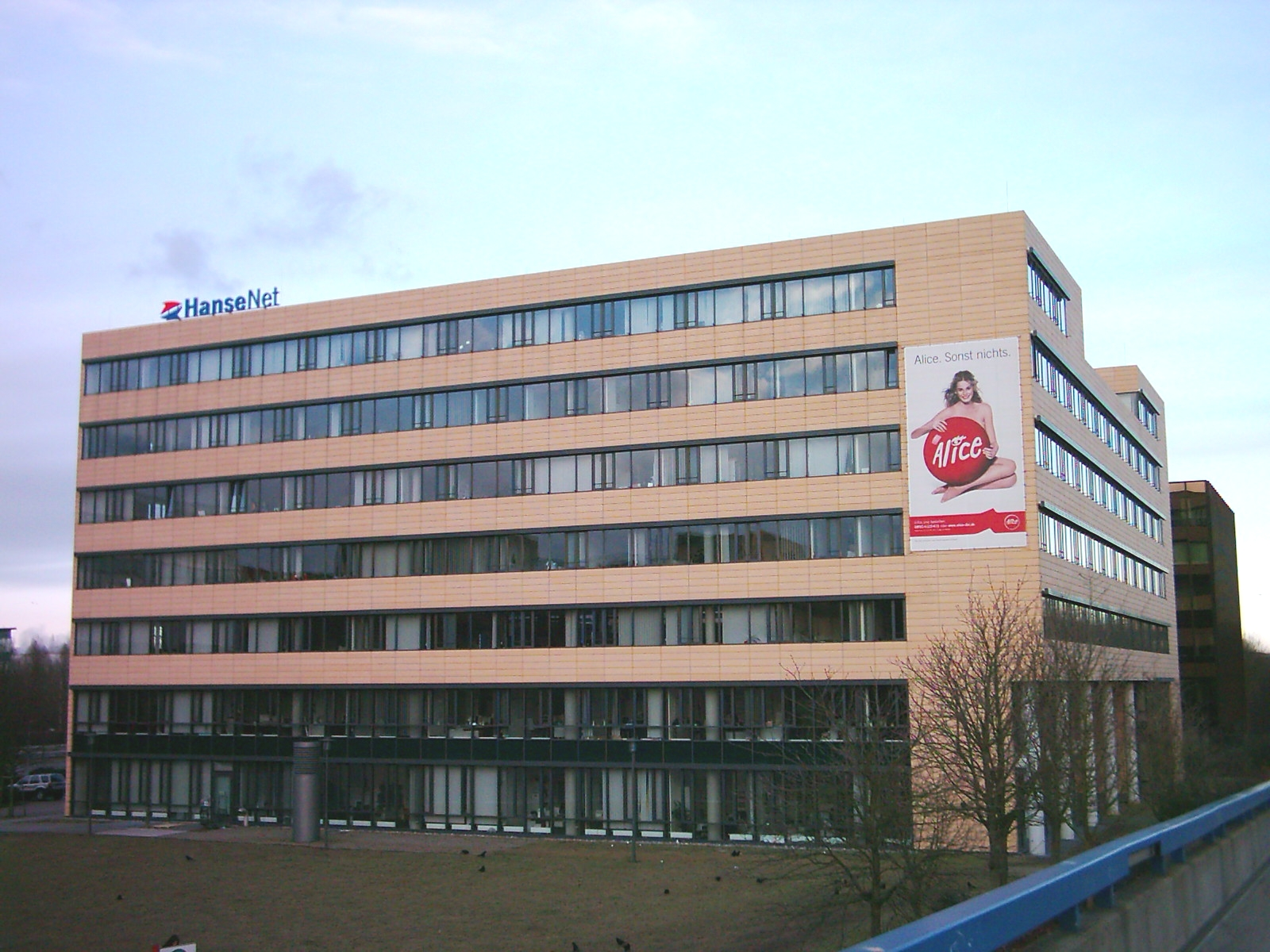 Head Office of HanseNet in Hamburg, Germany.